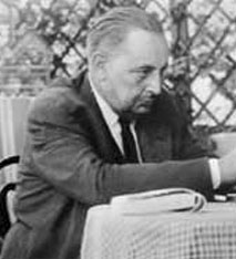 Italian writer Giuseppe Tomasi di Lampedusa